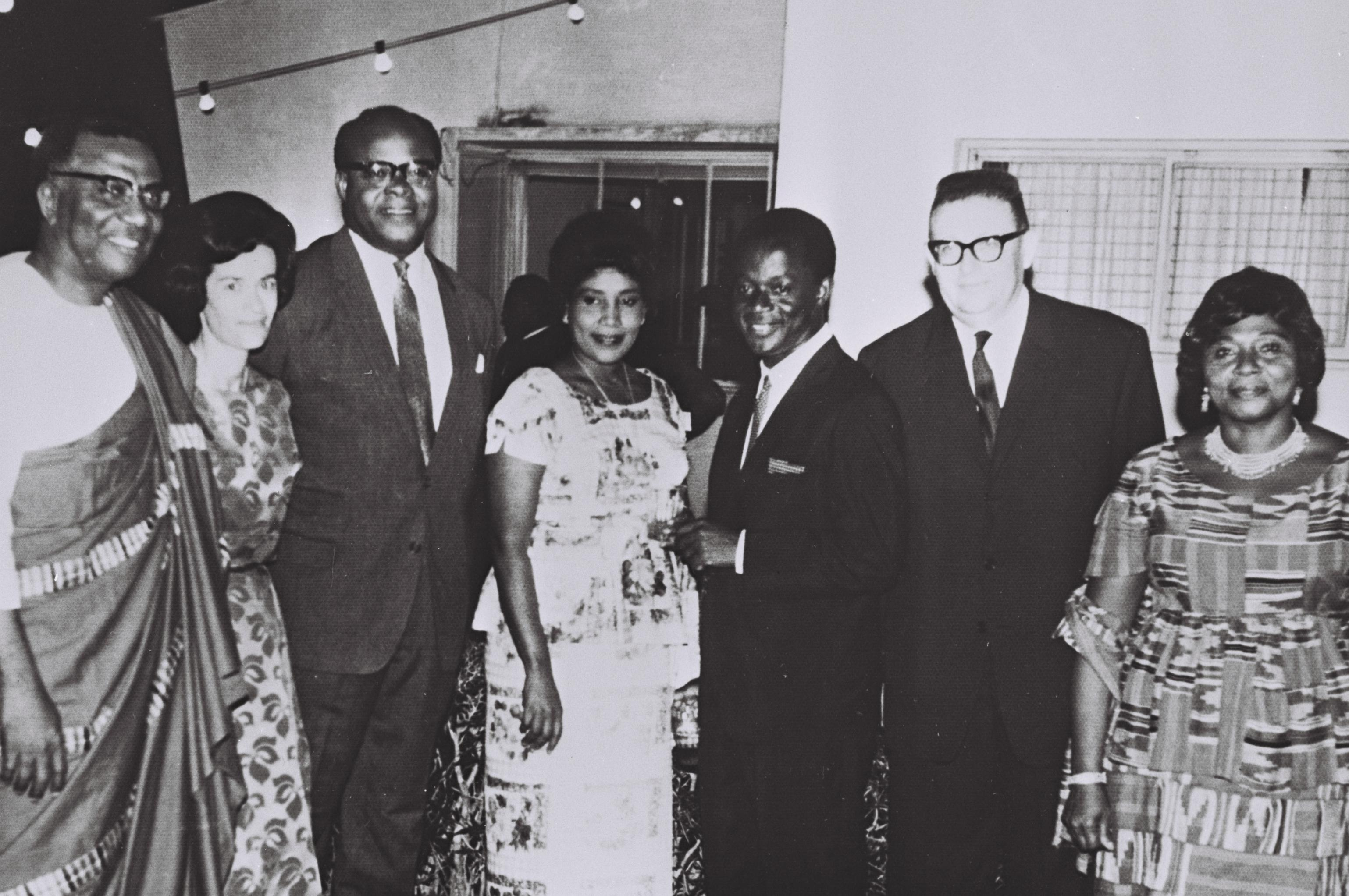 INDEPENDENCE DAY RECEPTION AT ISRAELI EMBASSY IN ACCRA, GHANA. L-R, GHANA BANK GOVERNOR W.M.Q. HALM, AMB. DESIGNATED JAMES MERCER, AMB. MICHAEL ARNON + WIVES.